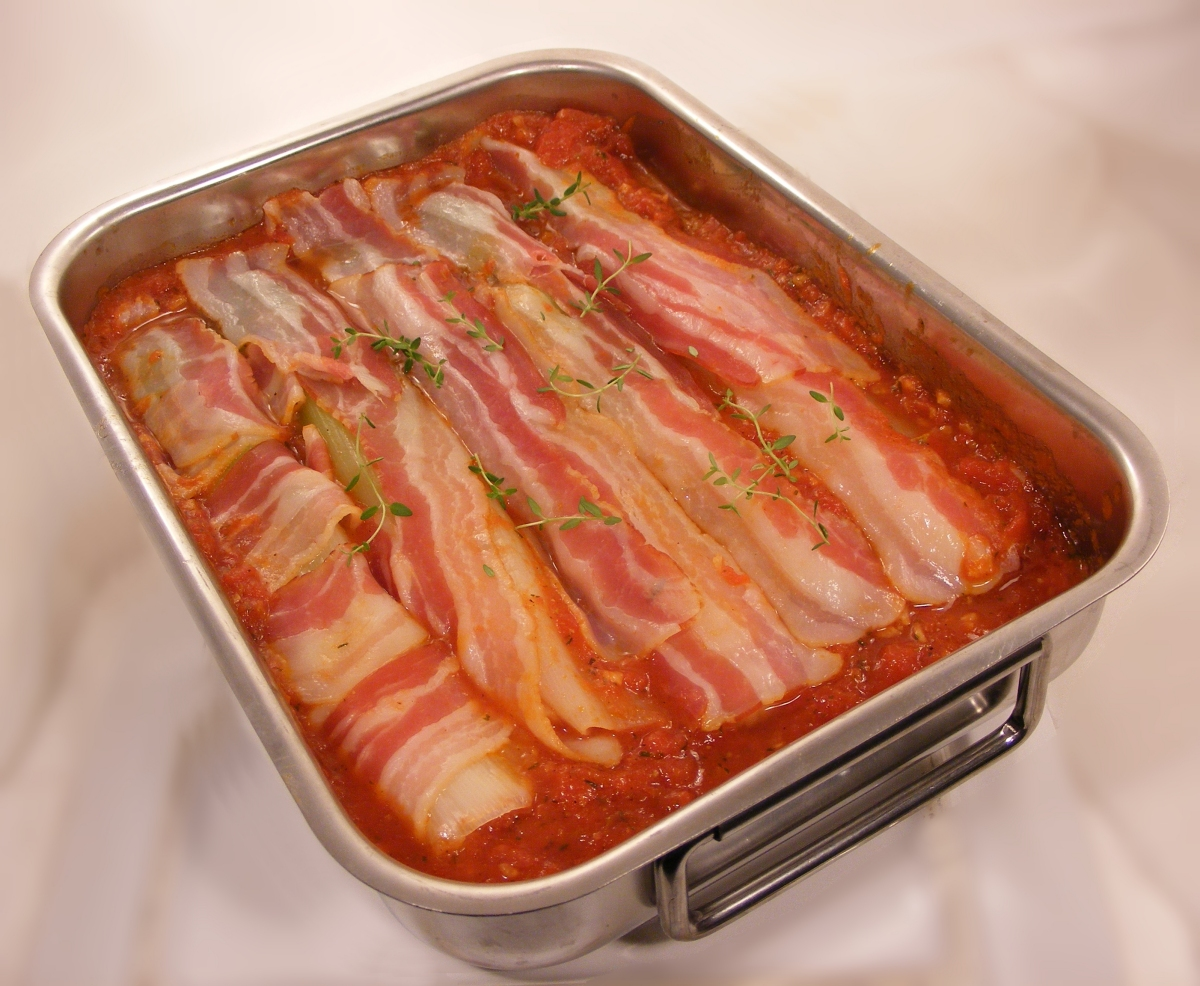 Casserole of bacon and leeks in a tomato-garlic sauce